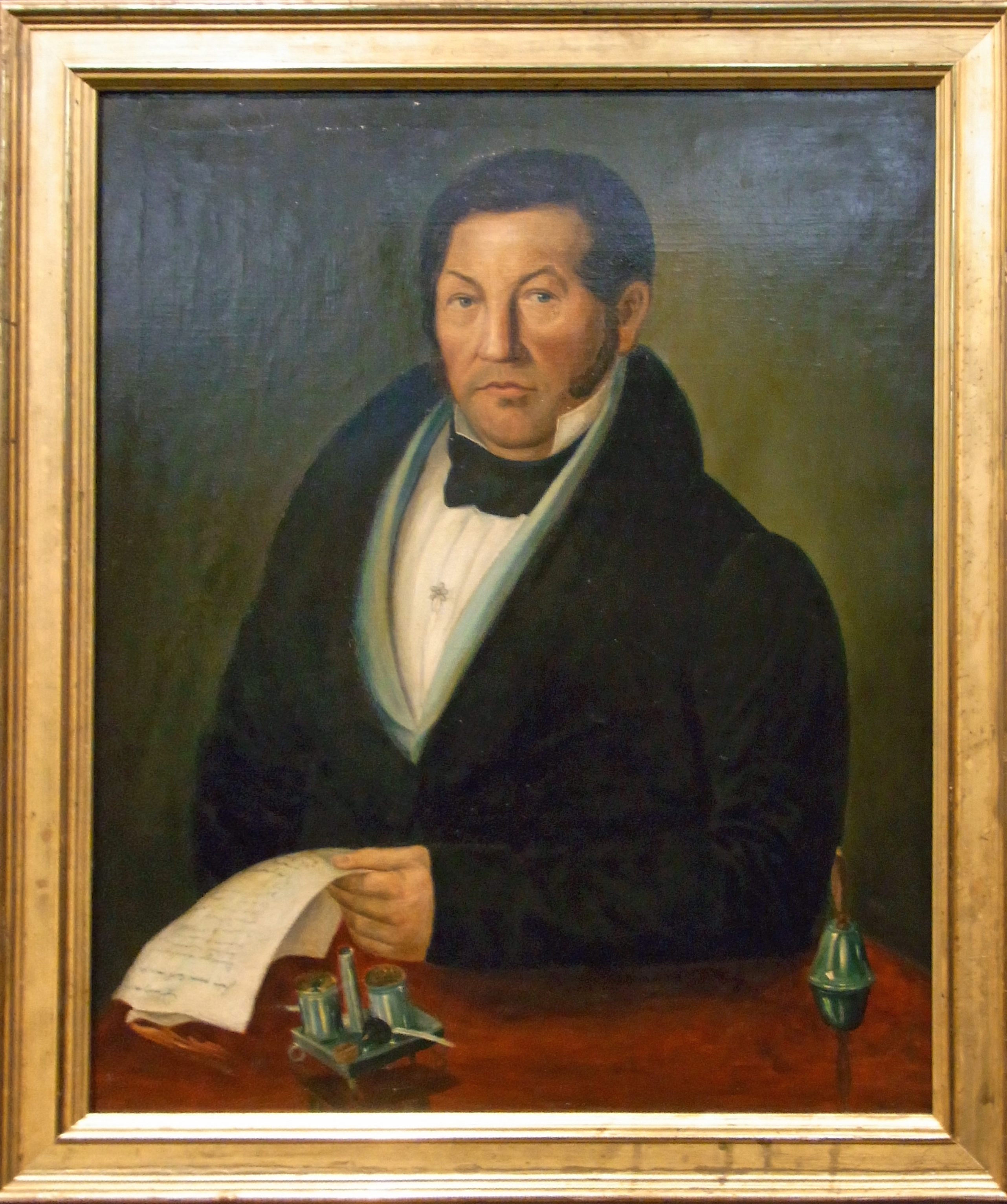 Ruhr Museum at Zollverein Coal Mine Industrial Complex